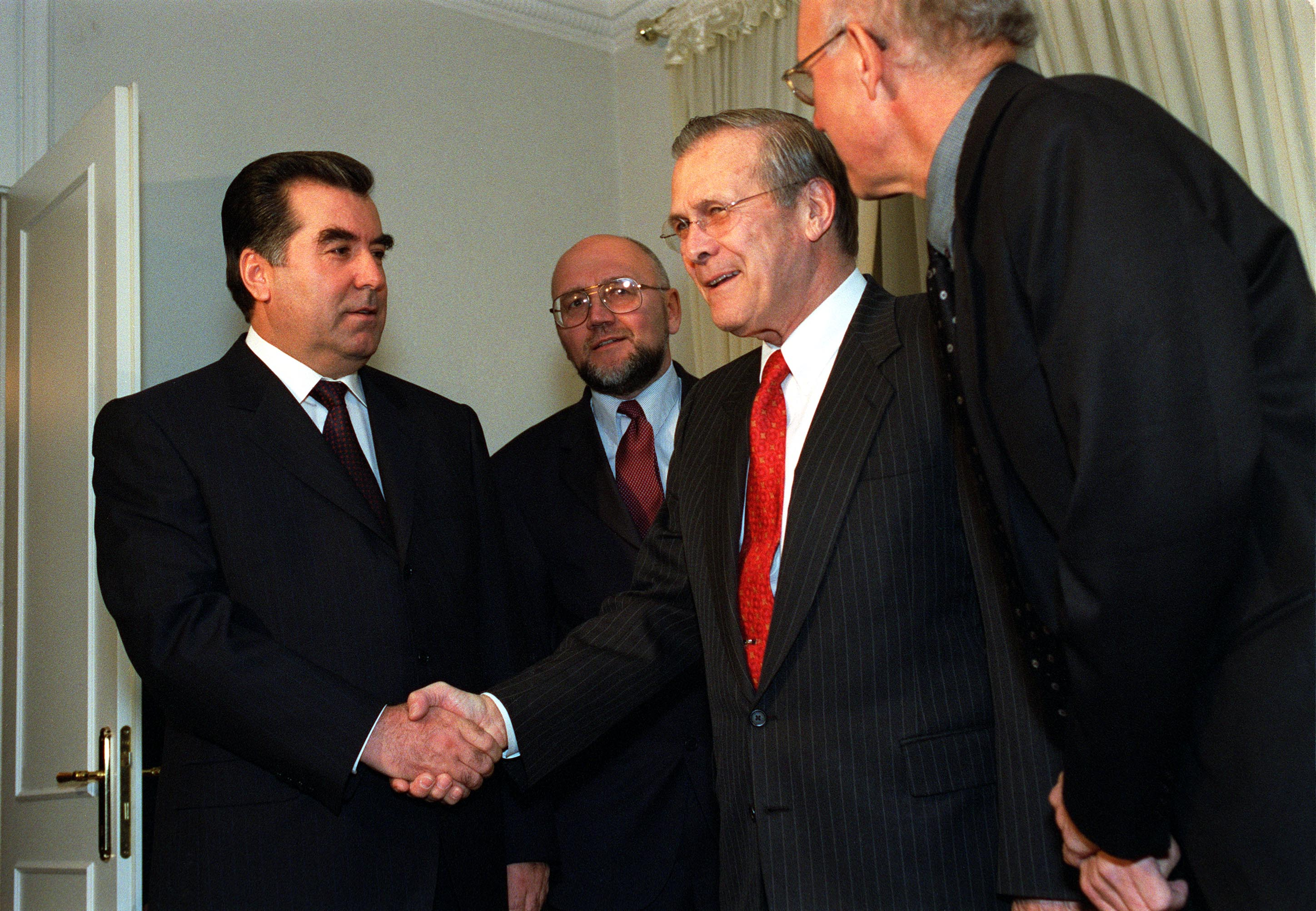 President Emomali Rahmonov (left), of Tajikistan, welcomes Secretary of Defense Donald H. Rumsfeld to the Presidential Palace in Dushanbe, Tajikistan, on Nov. 3, 2001. Rumsfeld is visiting the Tajik capitol to discuss the war on terrorism with Rahmonov. Also appearing in the photo is the interpreter Alexei Sobchenko (2nd from left), of the U.S. Department of State, and U.S. Ambassador to Tajikistan Franklin Huddle (right). DoD photo by R. D. Ward. (Released) 011103-D-9880W-156